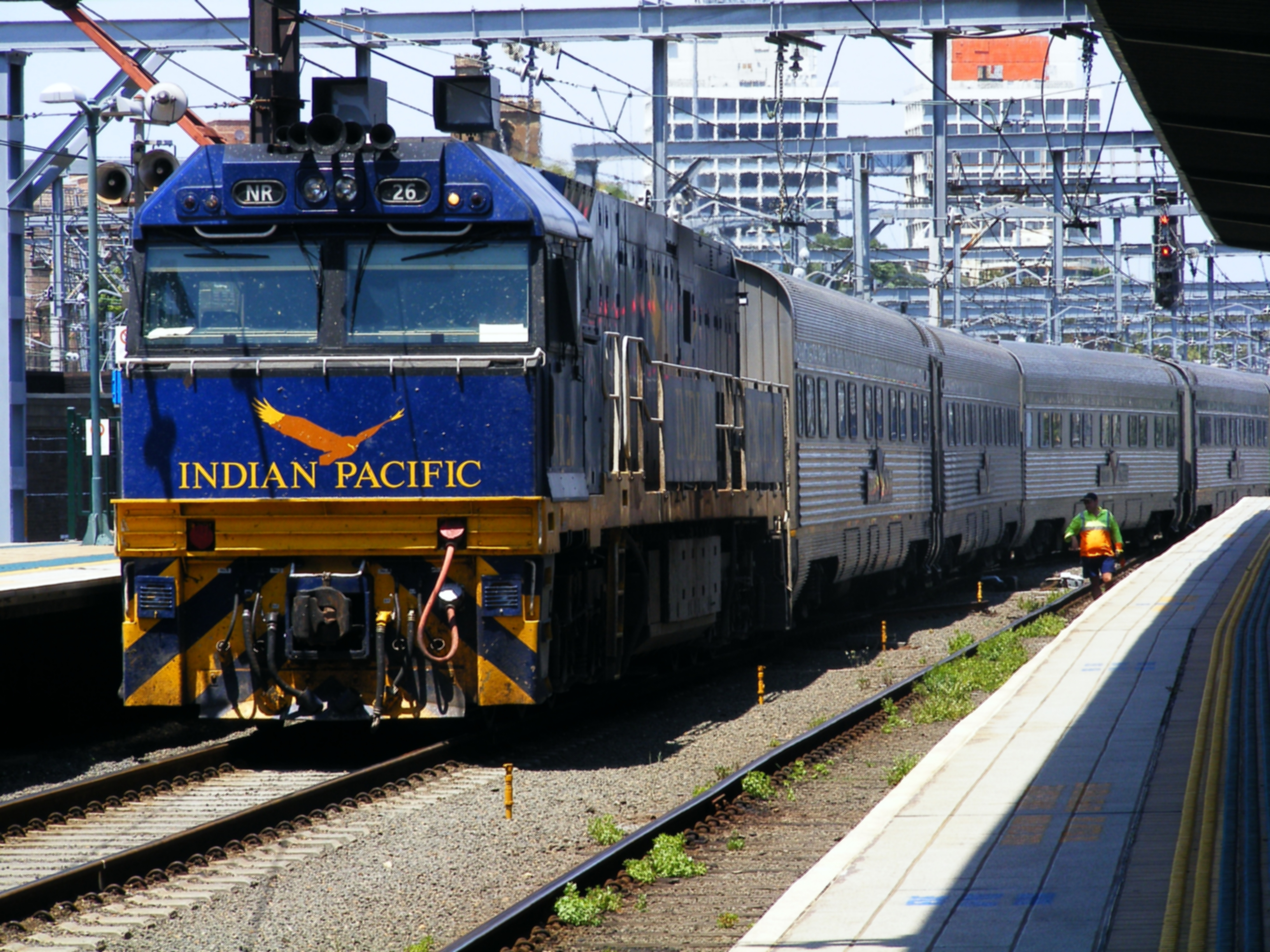 NR26 Shunts half the consist of the Indian Pacific at Sydney Terminal.